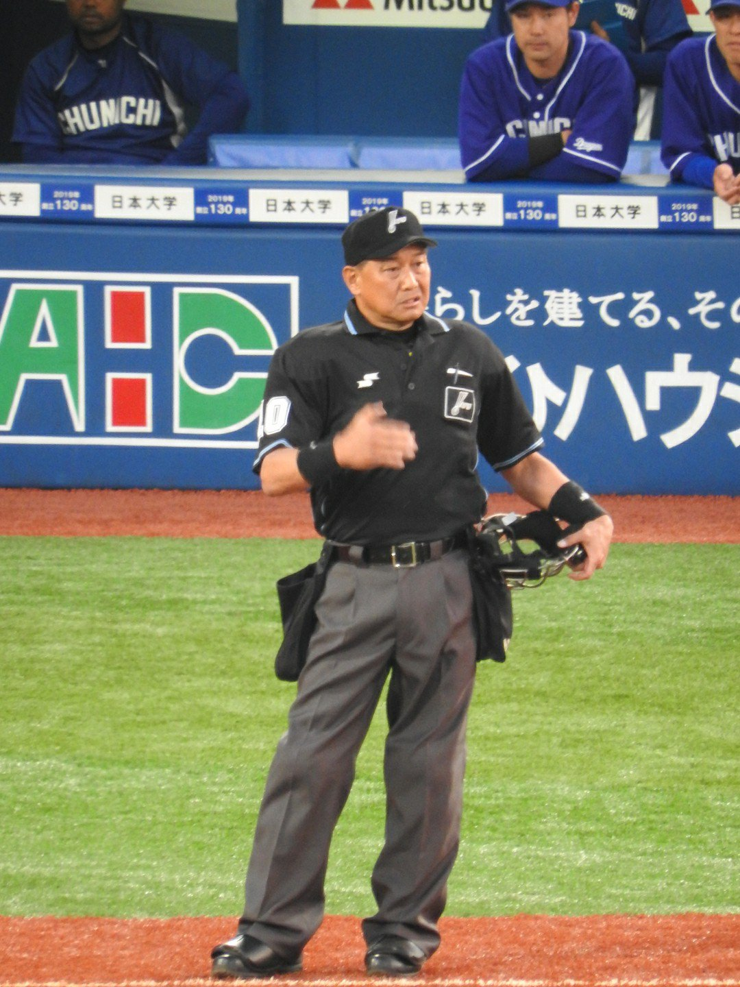 2019年5月16日横浜スタジアムにて